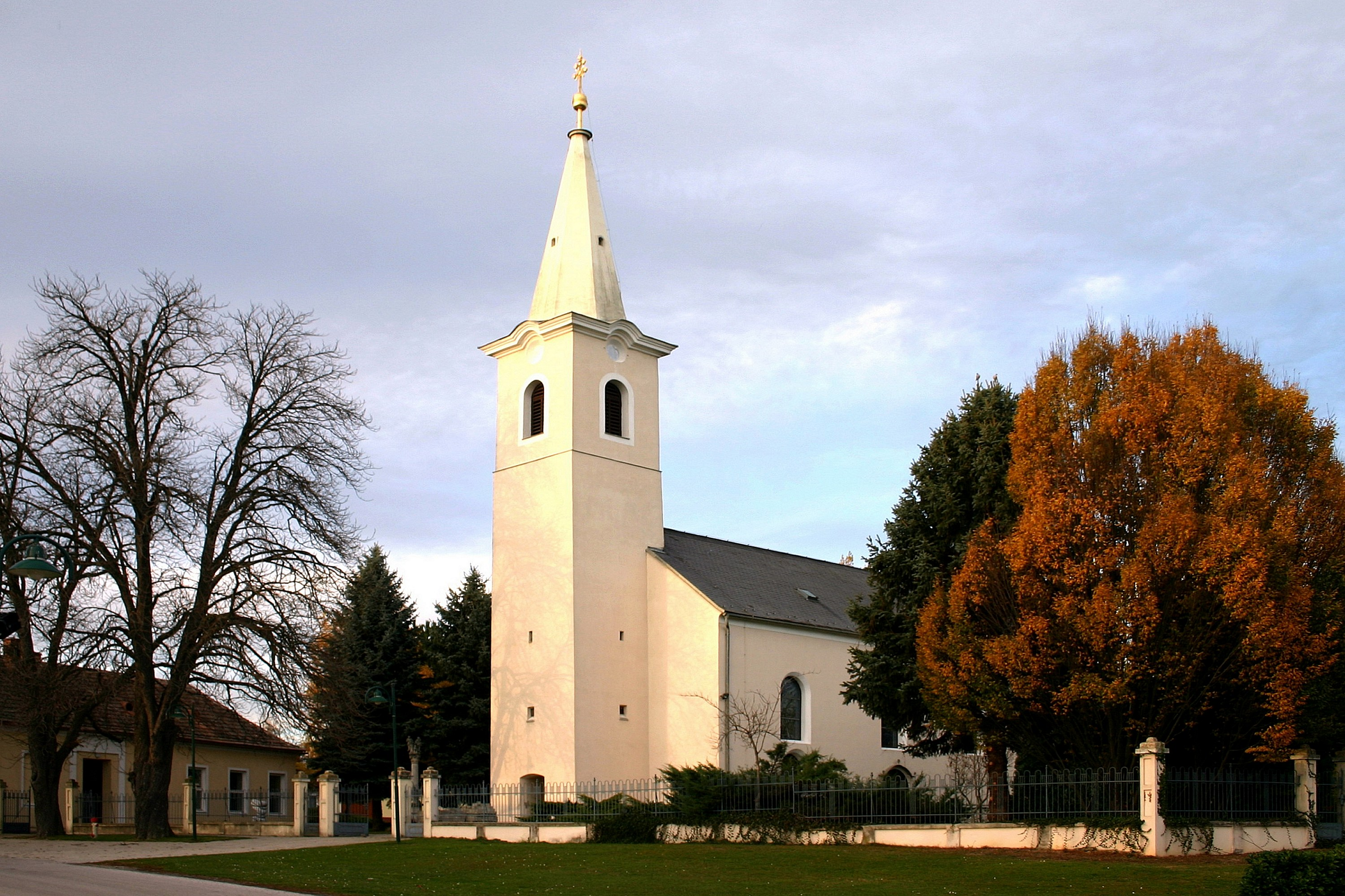 Großwarasdorf - Kleinwarasdorf, parish church hl. Ann